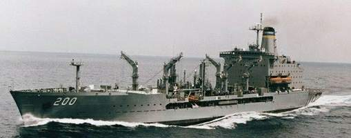 U.S. Navy Henry J. Kaiser-class fleet replenishment oiler USNS Guadalupe (T-AO-200)